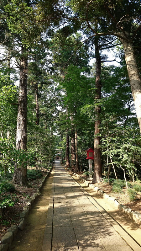 The main approach to the shrine, of Hirohata Hachimangū